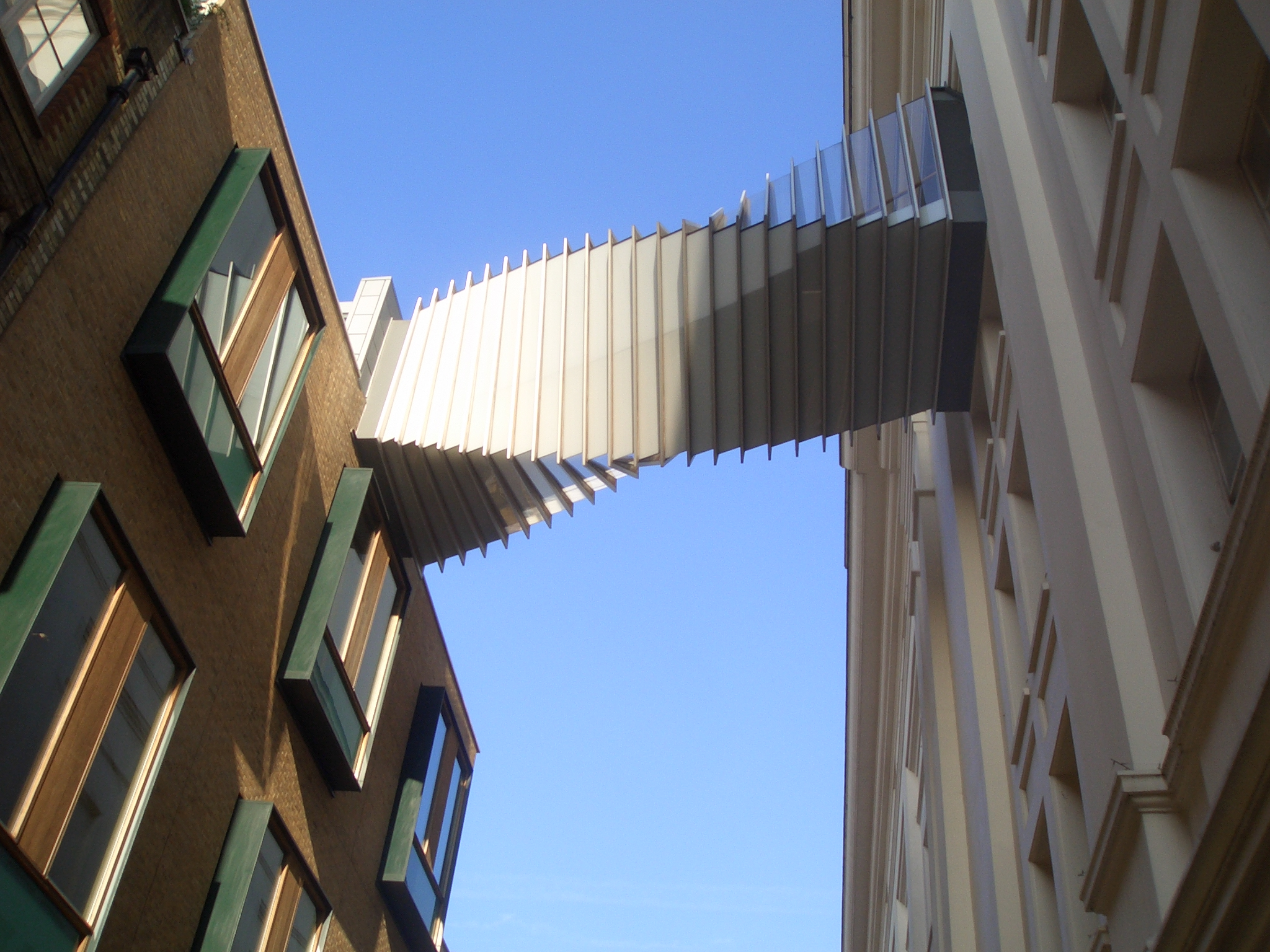 Skybridge in Covent Garden. Photo taken by User:Edward.